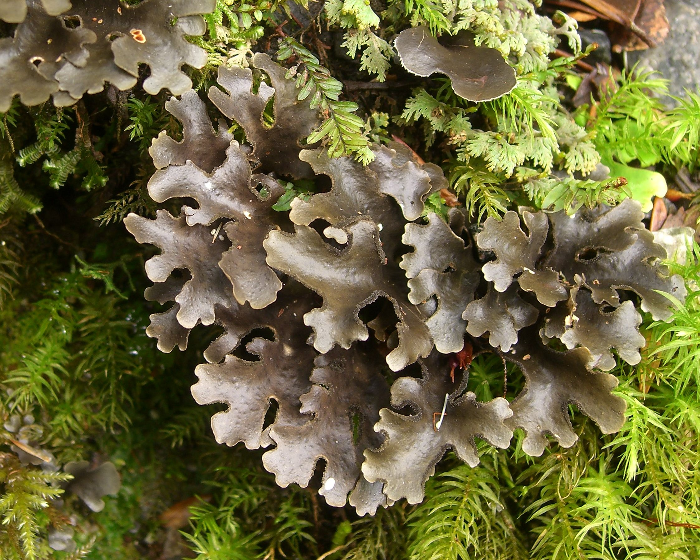 The lichen species Sticta hypochroa Vainio. Photographed in Parque Nacional Queulat, Aisen, Chile.